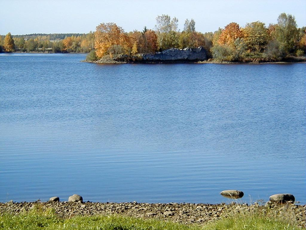 Sēlpils Castle ruins on island in Daugava River